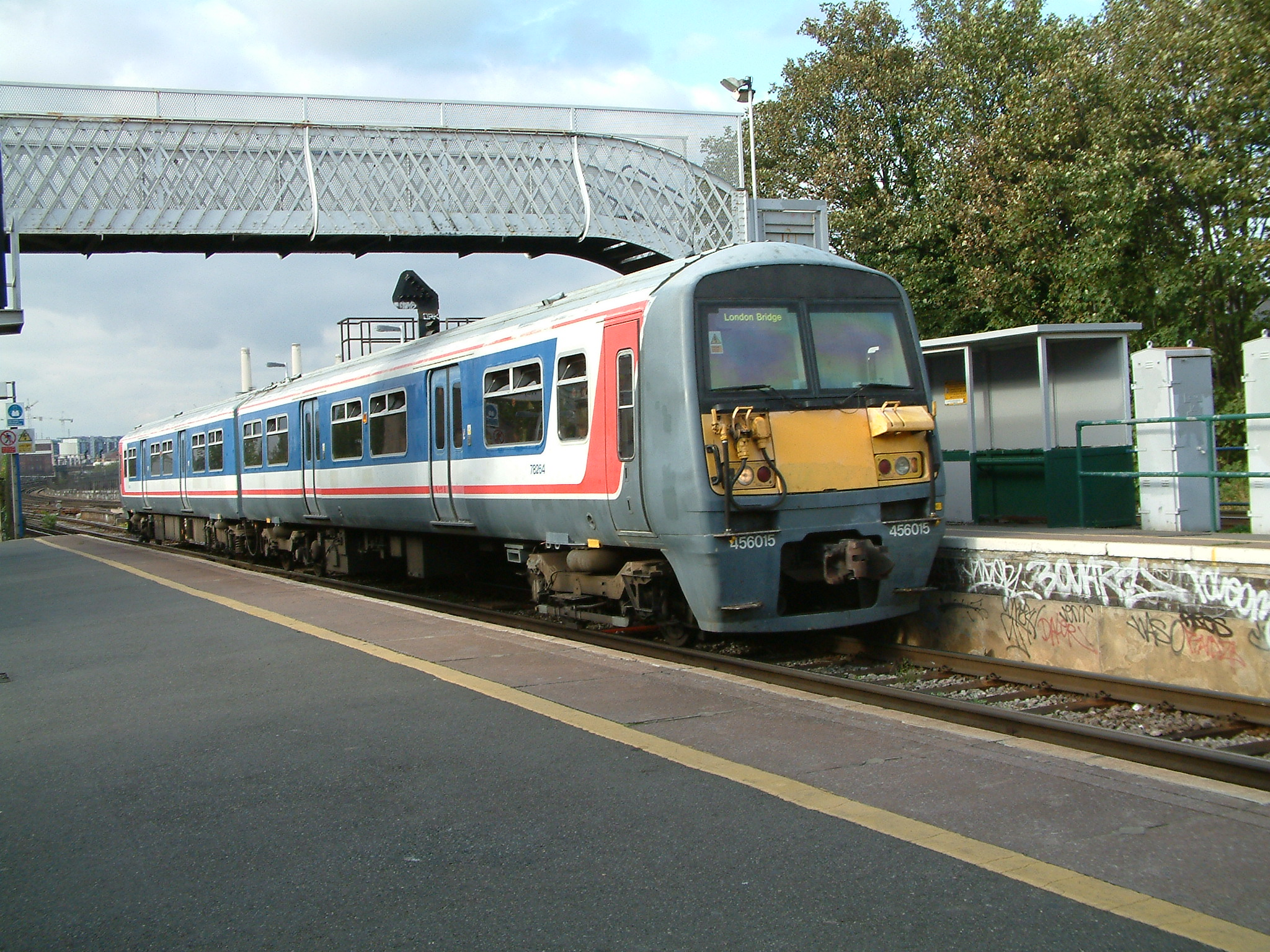 Southern 4560125 with the service from Victoria to London Bridge arriving at Wandworth Road